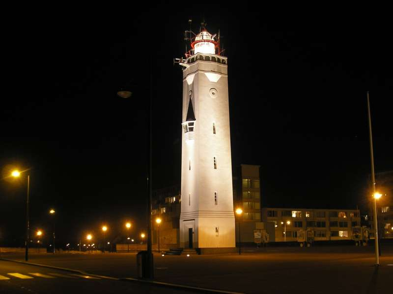 Nightshot of lighthouse in Noordwijk aan Zee, Netherlands (side view)